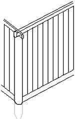 The Imbedded Corner Column Technique (jordgravne hjørnestolper) Sketch by User:ToB (Tom Bjørnstad, Norway)